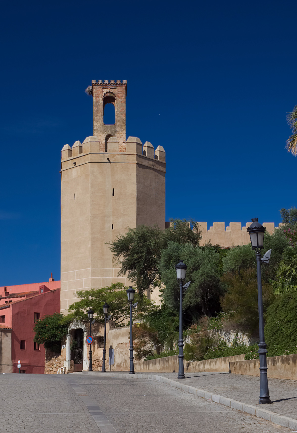 Alcazaba de Badajoz, Espantaperros Tower